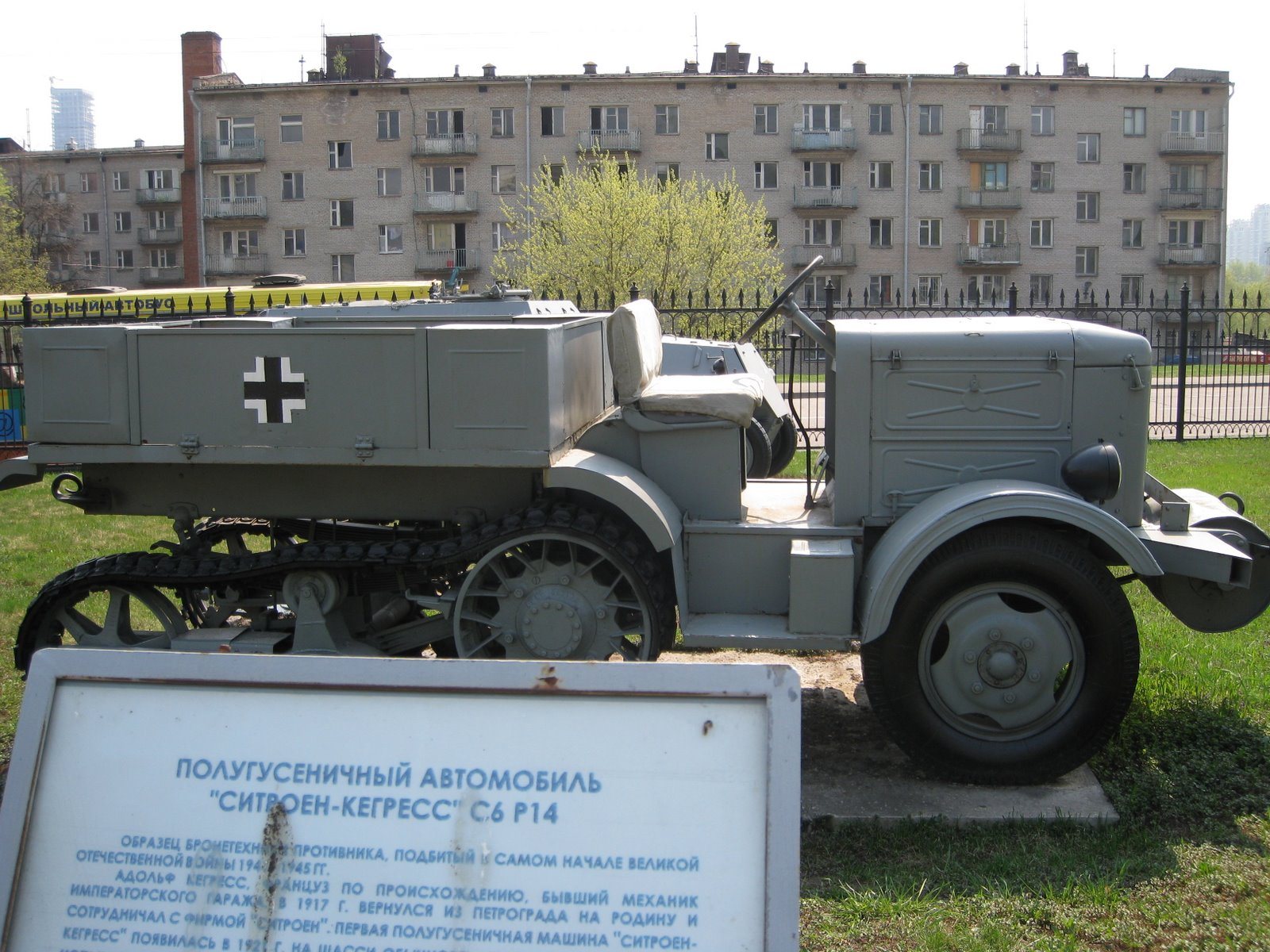 A Citroën-Kegresse C6 P. 14 halftrack that was captured by the Wehrmacht and used by the Wehrmacht after that. This vehicle is displayed in a Russian military museum.